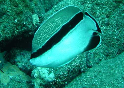 Apolemichthys arcuatus